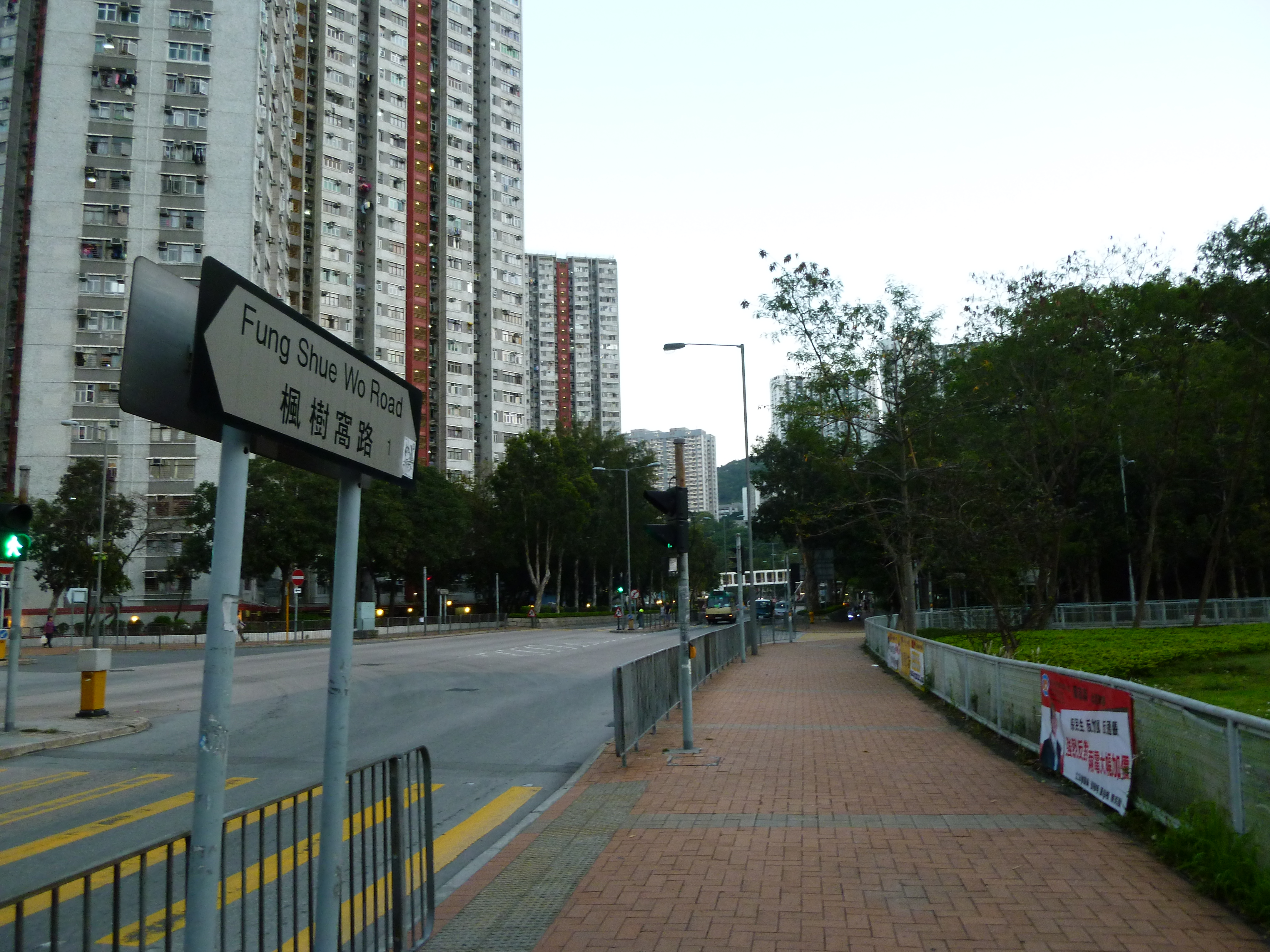 Fung Shue Wo Road (Tsing Yi, Hong Kong)